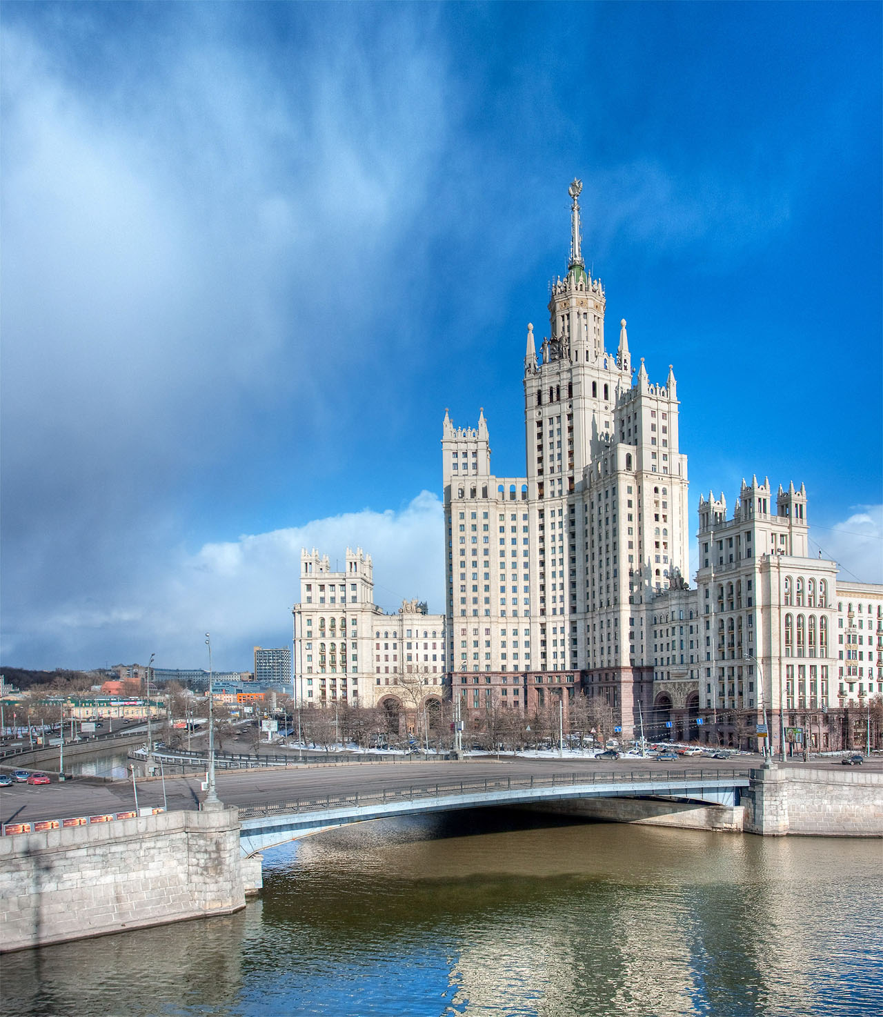 Mouth of Yauza River / Moscow, Russia